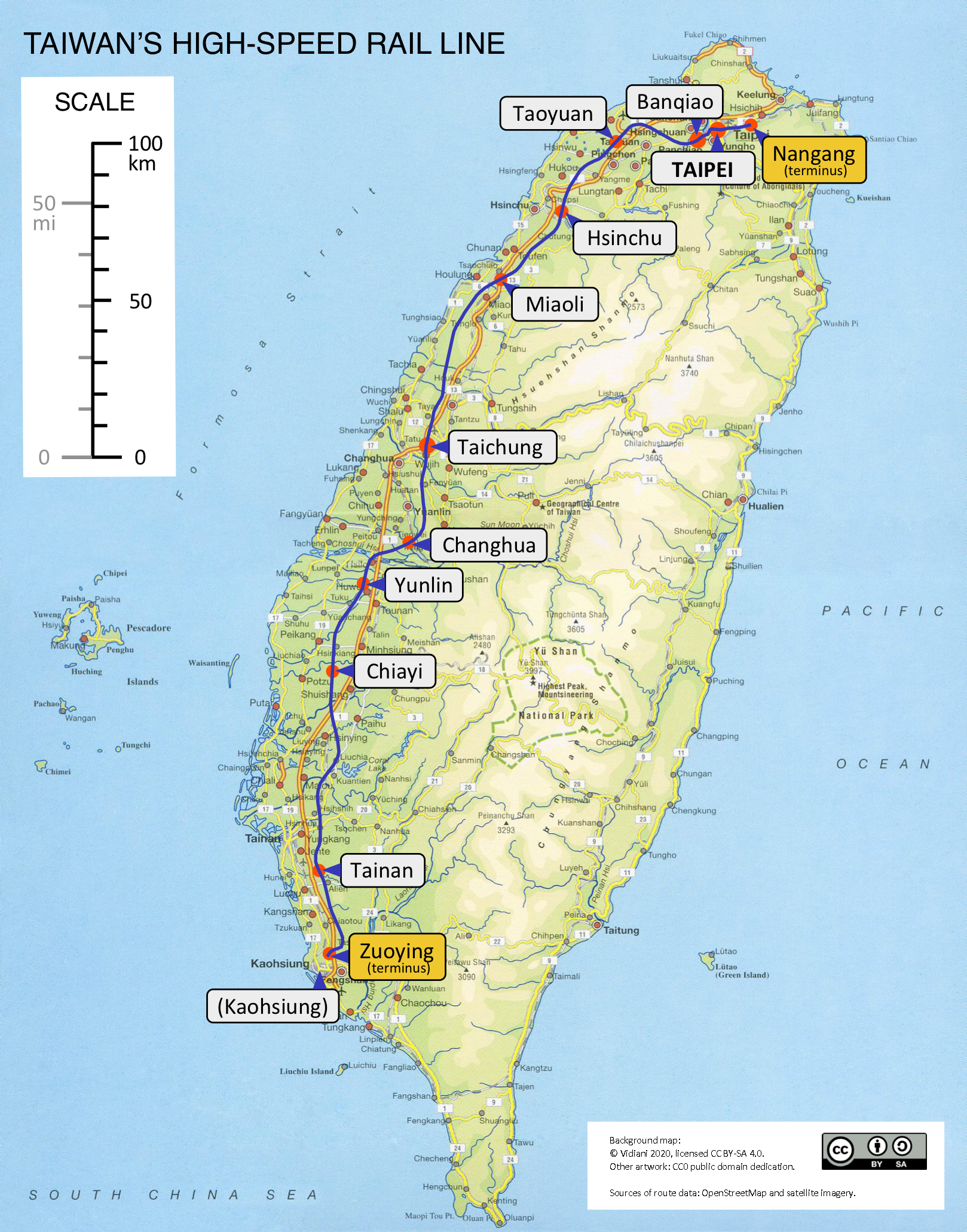 A map of Taiwan's High-Speed Rail Line, with stations shown.